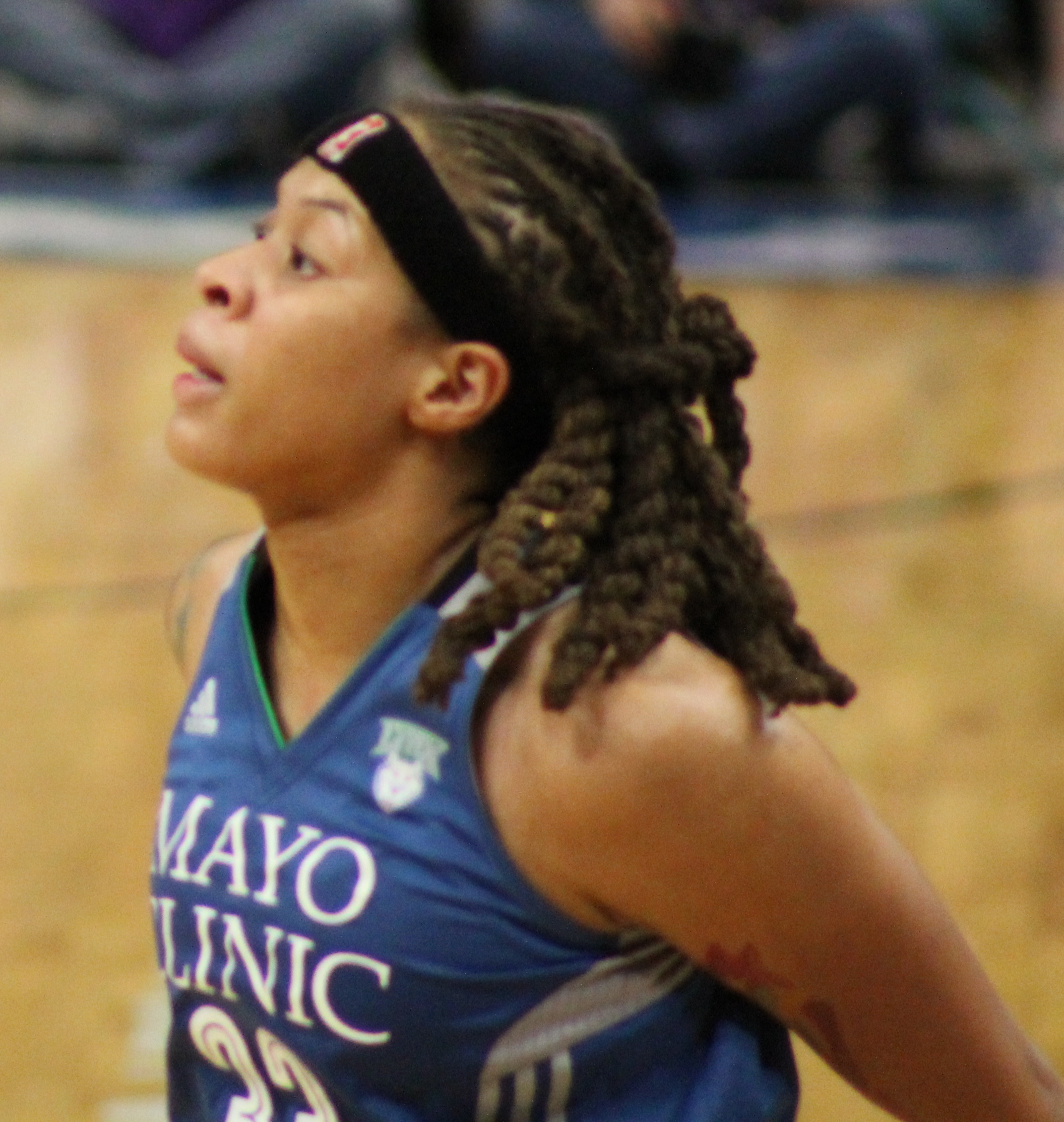 Seimone Augustus of the Minnesota Lynx